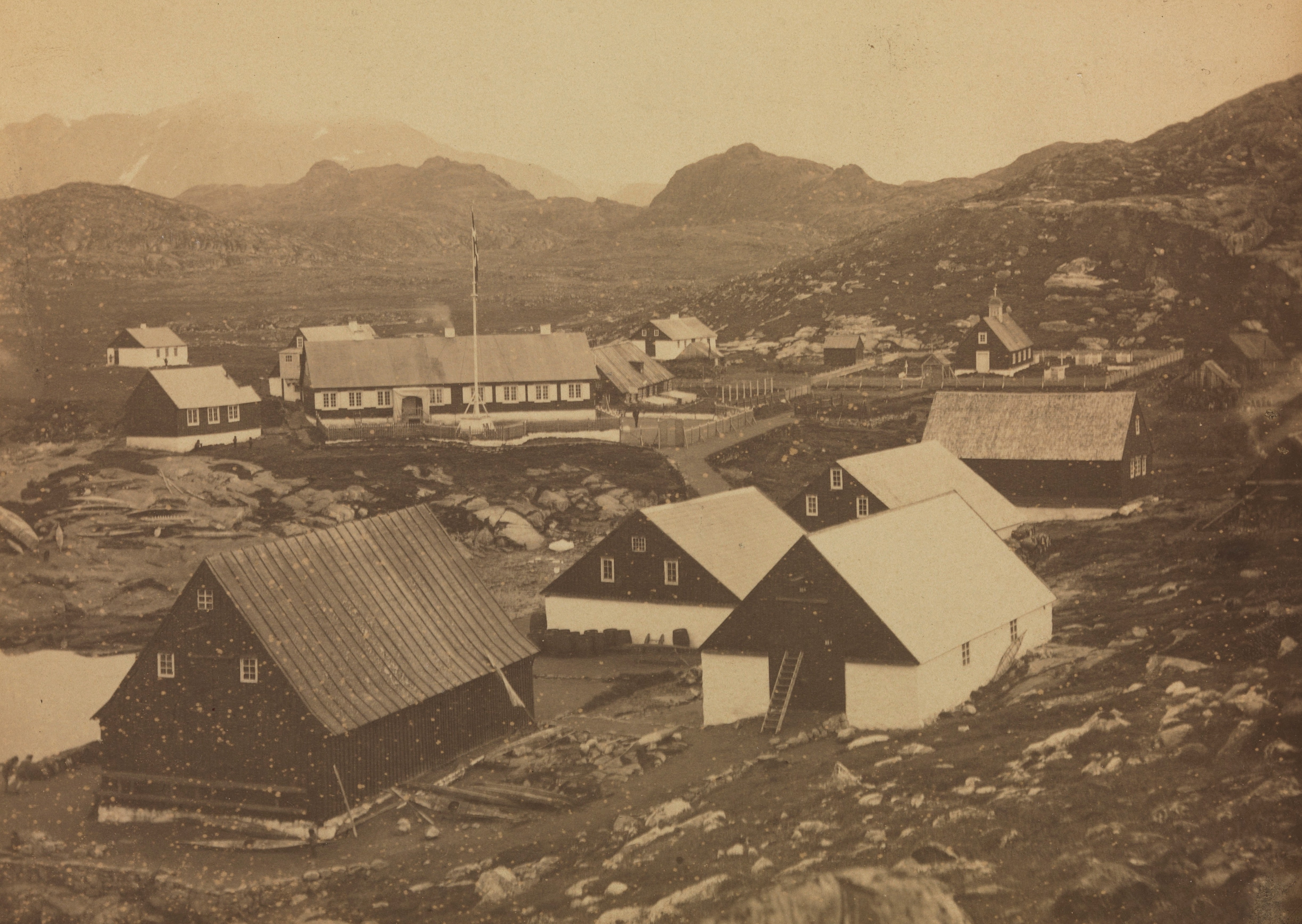 View of the settlement.